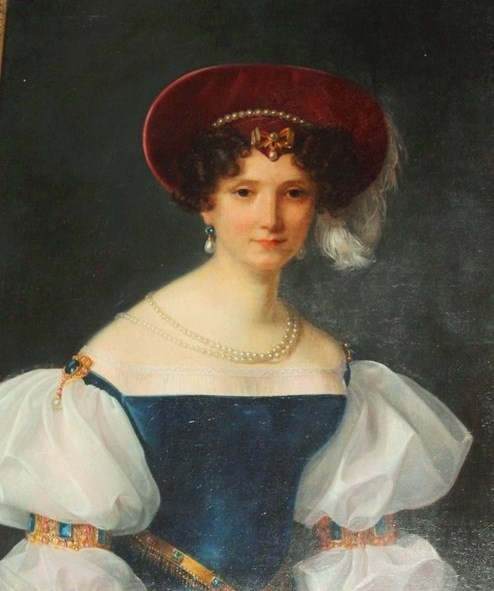 Olga Potockich Naryszkin